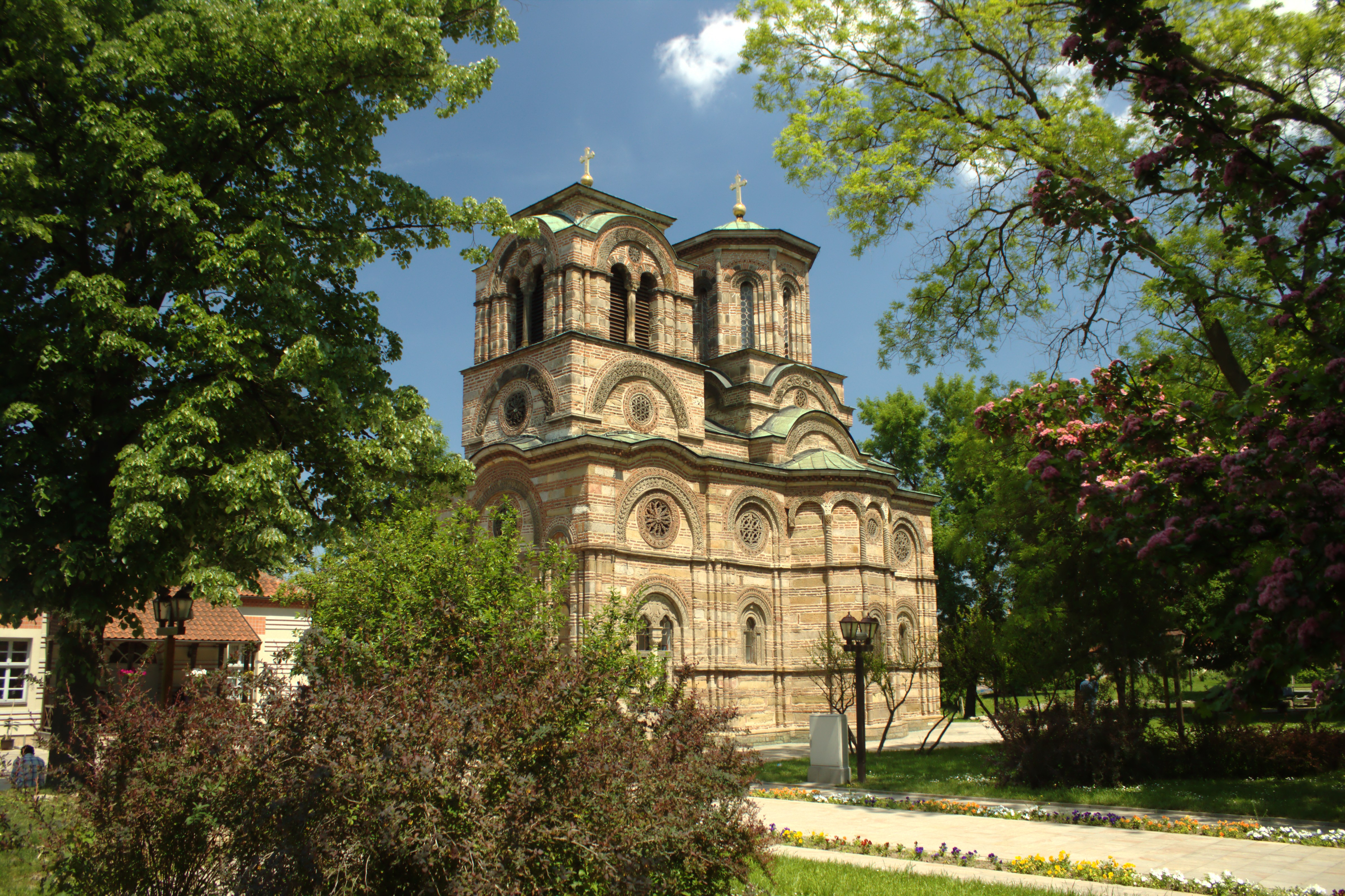 A church located near the ruins of Lazar Castle in the town of Kruševac, Serbia